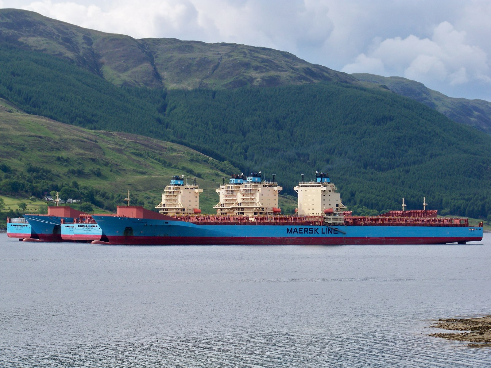 Maersk Container Ships In Loch Striven, near to Inverchaolain, Argyll And Bute, Great Britain. An alternative view of the five Maersk container ships in Loch Striven near Inverchaolain. Bentonville IMO Number: 9313929 Baltimore IMO Number: 9313917 Sealand Performance IMO Number: 8212726 Beaumont IMO Number: 9313967 Maersk Boston IMO number: 9313905